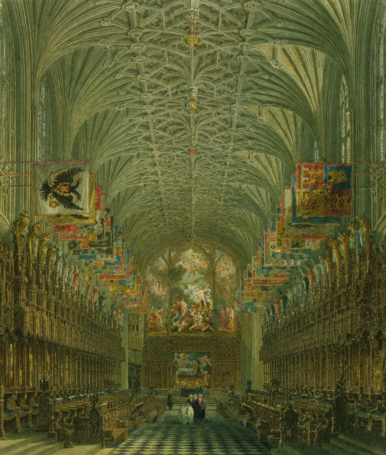 A view of the Quire of St George’s Chapel at Windsor Castle The aquatint engraving of this picture was published as plate 22 of W.H. Pyne (1819), The History of the Royal Residences